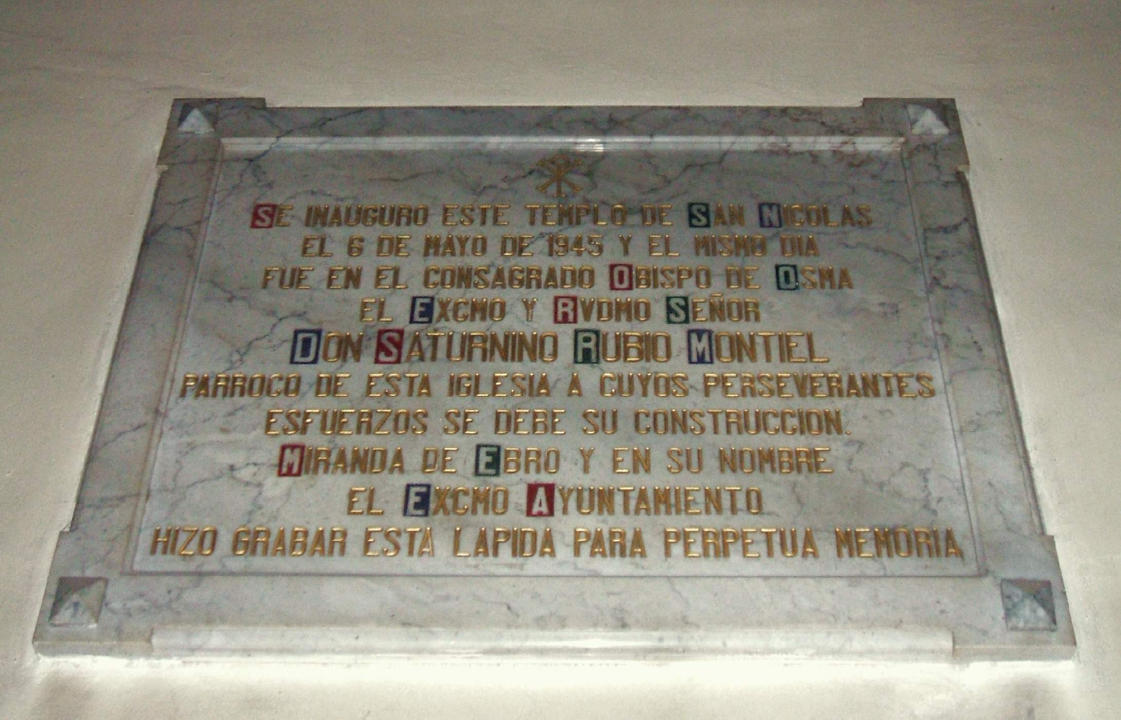 Placa conmemorativa de la inauguración de la nueva Iglesia parroquial de San Nicolás, en Miranda de Ebro, prov. de Burgos, Castilla y León, España